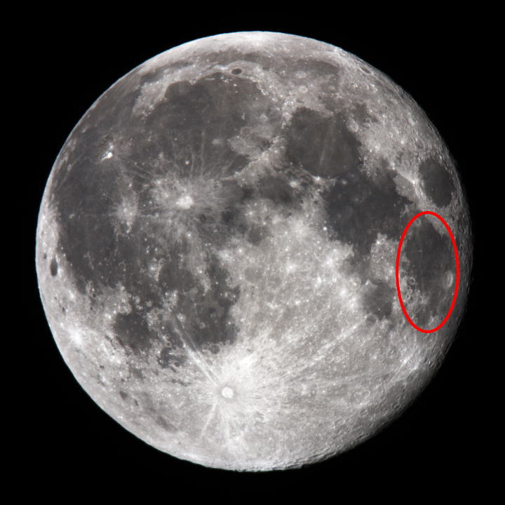 The Location of Mare Fecunditatis, One of the Lunar Geographical Features.